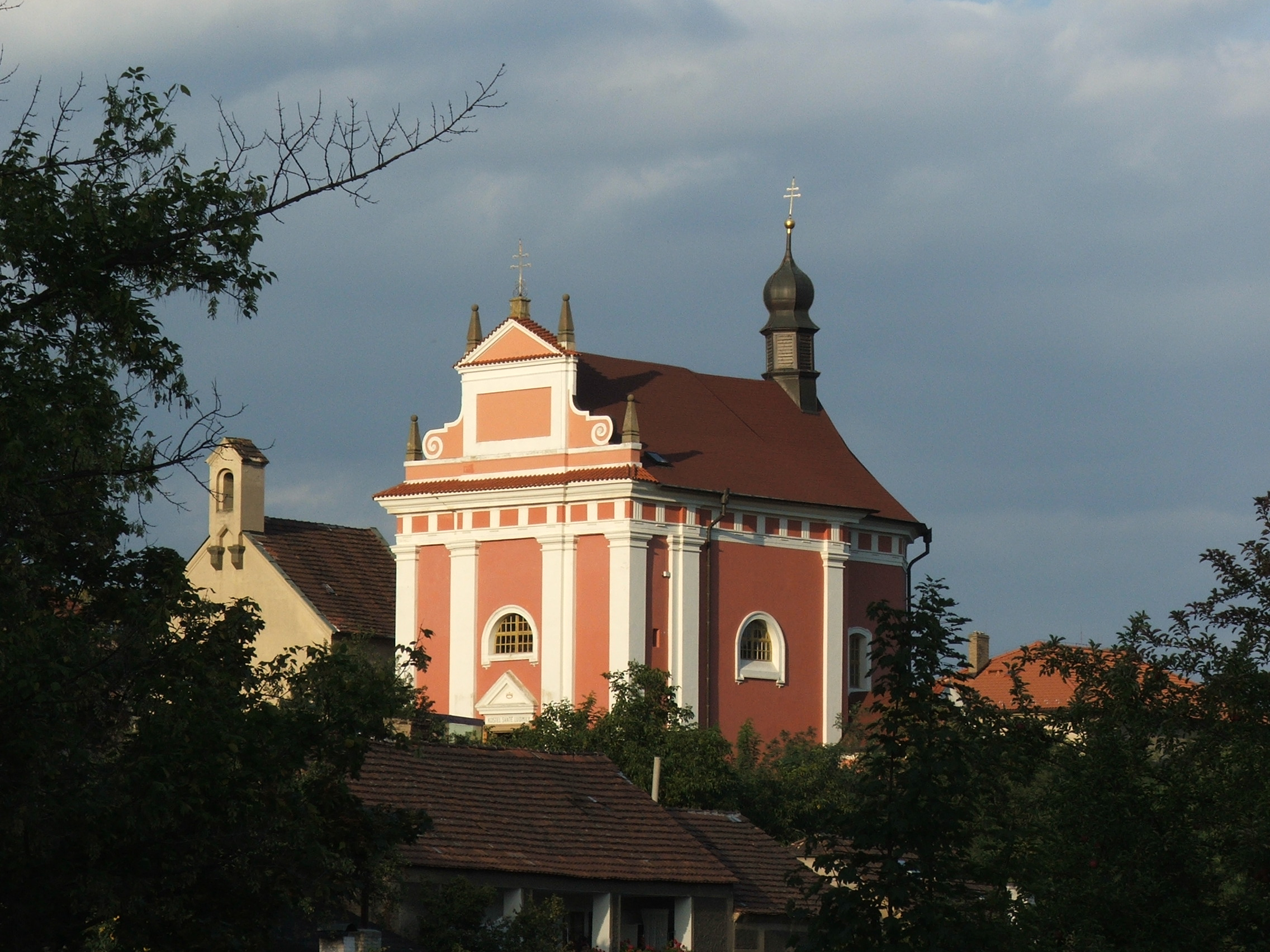 Baroque church of St. Ludmilla in Tetín, Czech Republic.